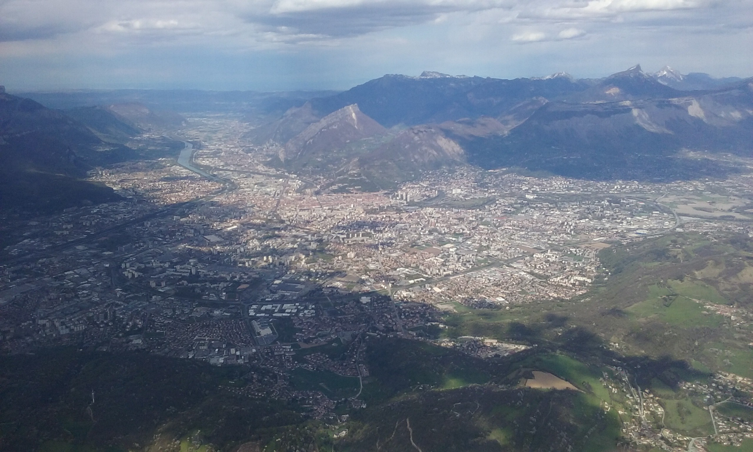 Aerial view of Grenoble.